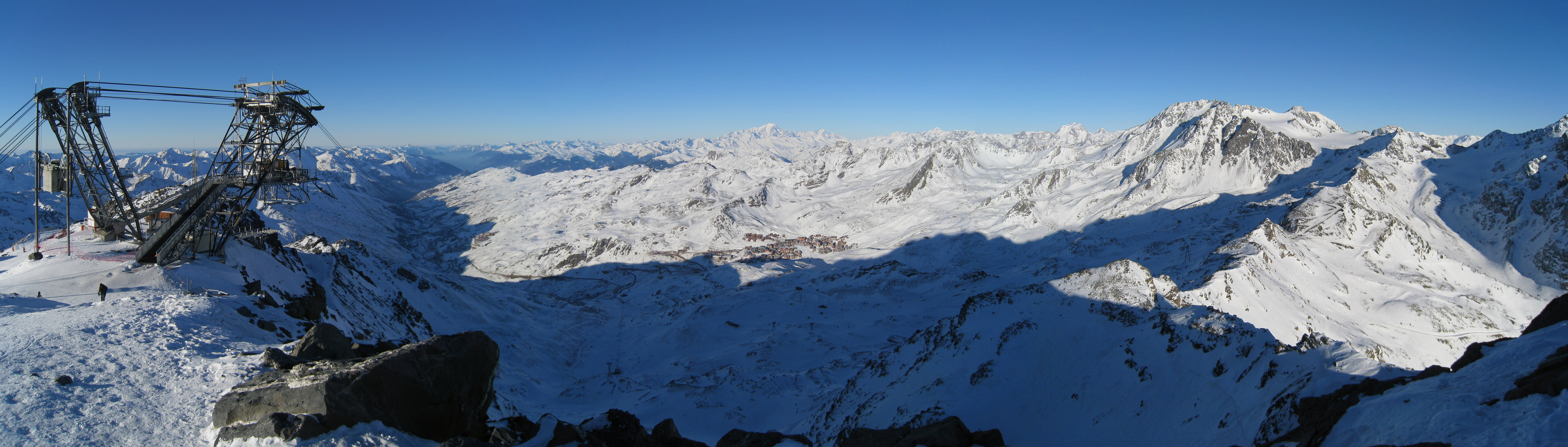 Landscape of the "vallée des Belleville" from "cîme de Caron" peak (3195m). It shows the ski resort of Val Thorens and in the background the Mont Blanc massif.